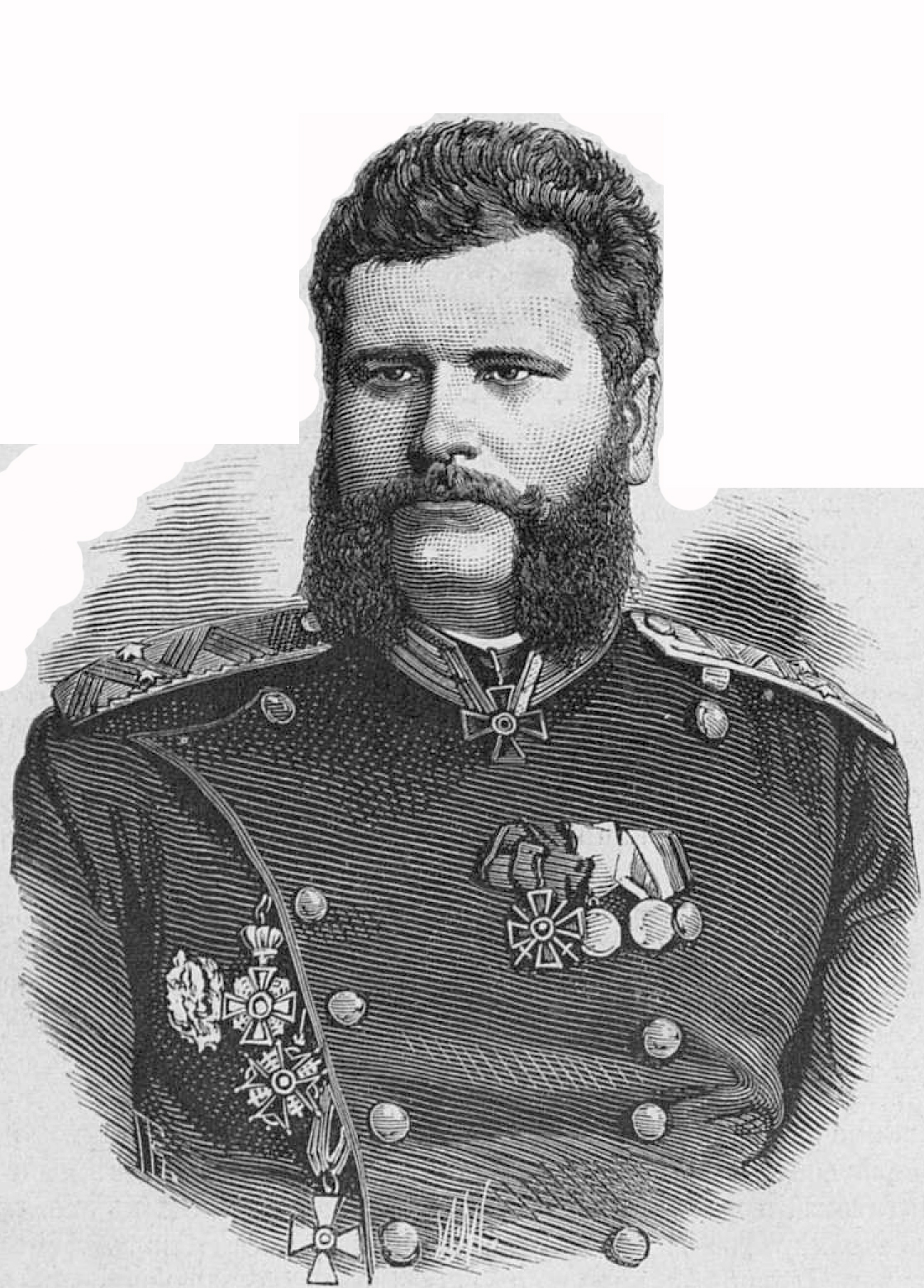 Lavrov, Vasily Nikolayevich.